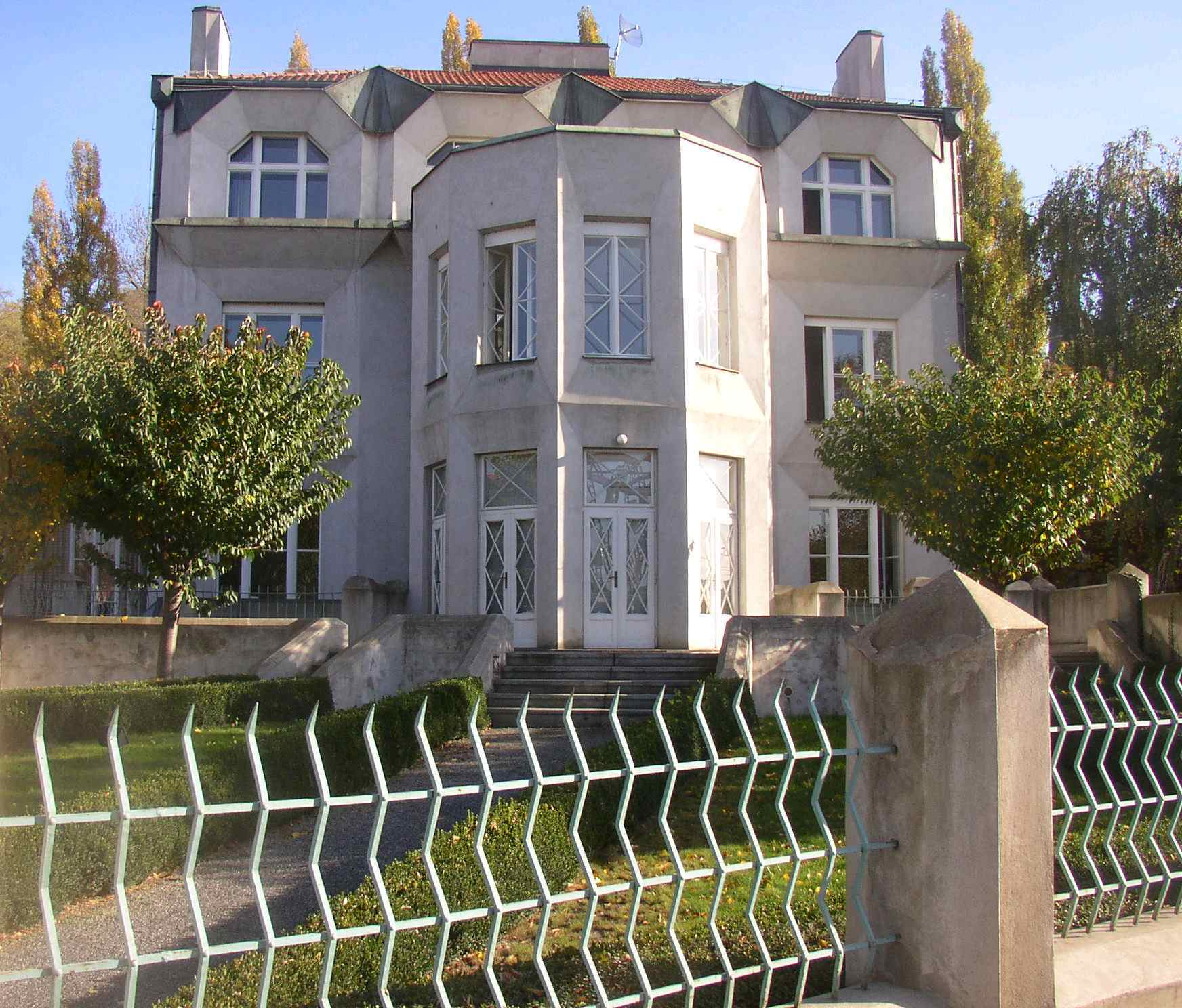 Cubist villa in Libušina Street 3/49, Vyšehrad, Prague, Czech Republic Designed by Josef Chochol, built 1912-1913. Photo taken by Miaow Miaow in October 2005, PD-self